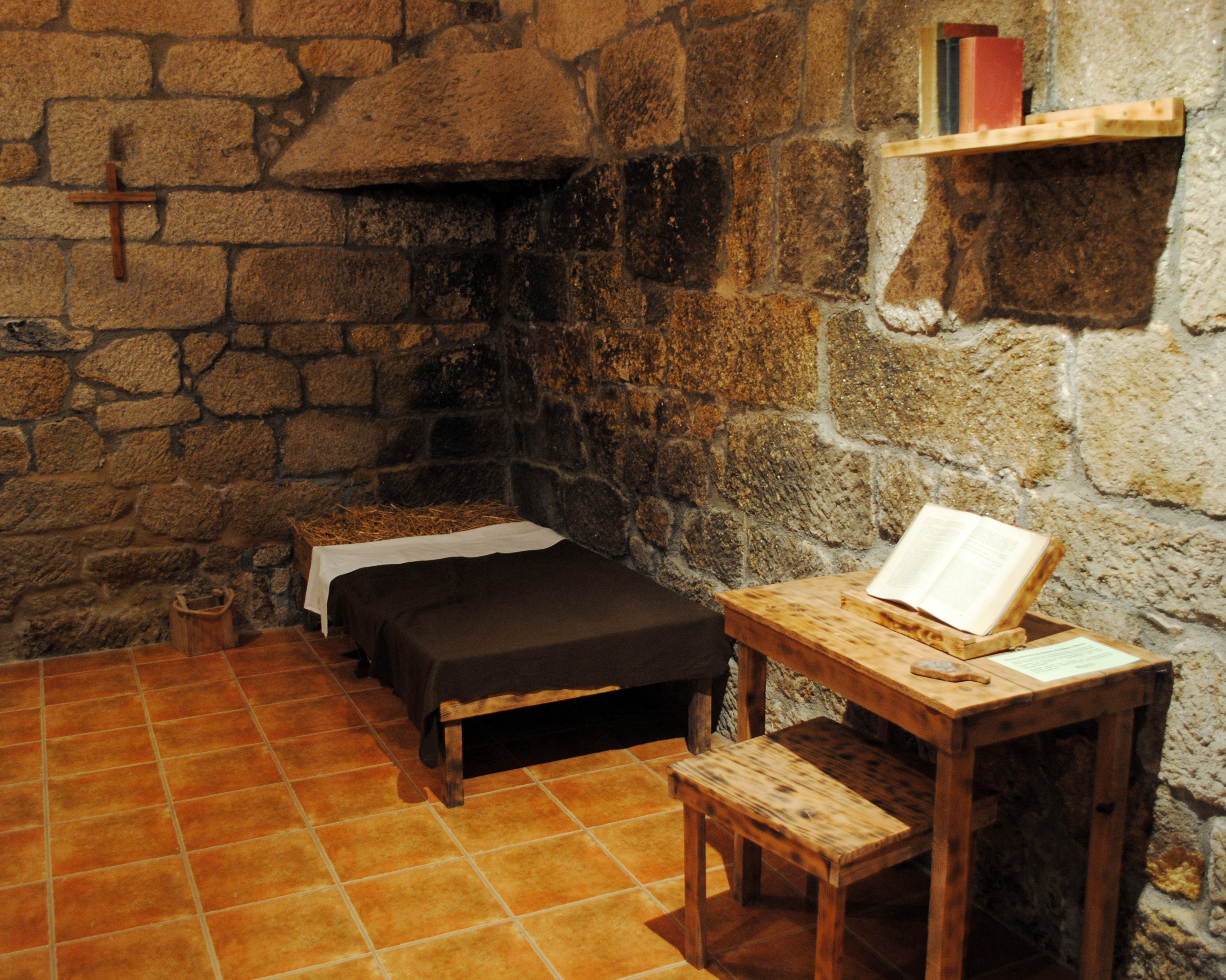 A monk's cell